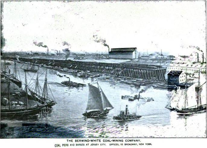 My copy from: Moses King. Kings Handbook of New York City, Volume 1, 1893, pp. 946-947.